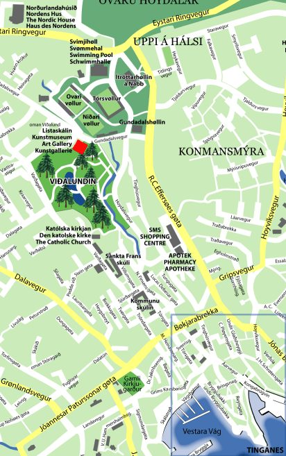 From German wikipedia, public domain as stated at (Work of Arne List, original upload 2004, Sep 2)